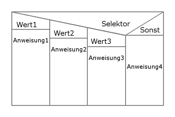 Multipage selection (Switch statement)